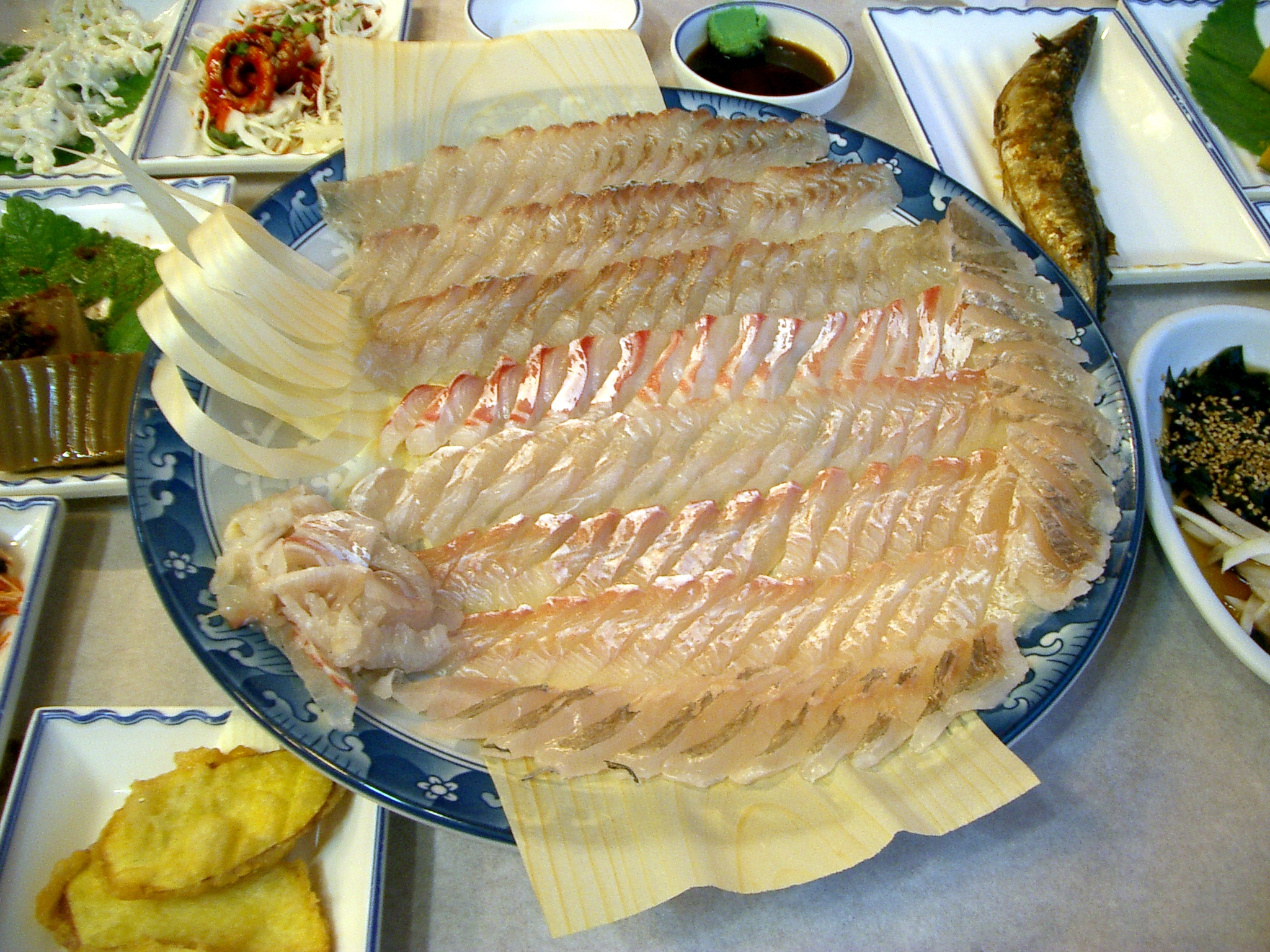 Hoe dish, Korean raw fish